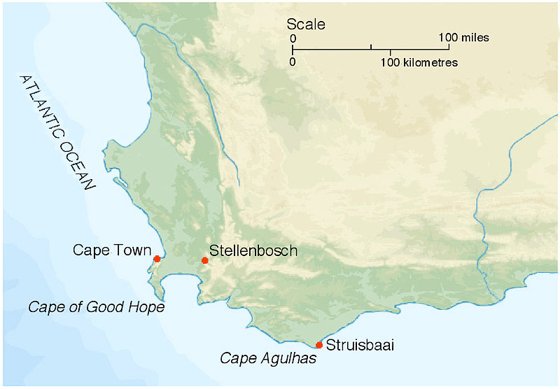 Map of Western Cape, derived from File:South Africa physical map.svg: locations of Cape Town, Stellenbosch, Struisbaai, Cape of Good Hope and Cape Agulhas, with a scale in miles and kilometres